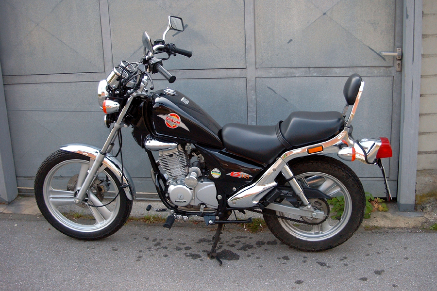 Daelim VS 125